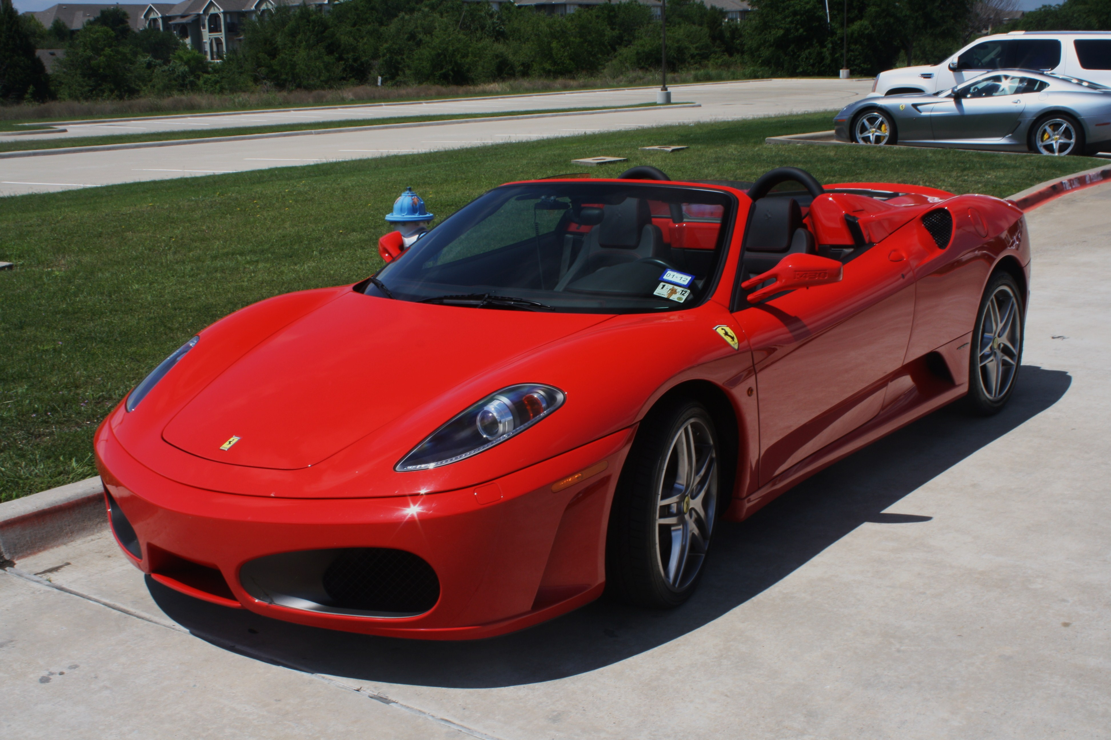 F430 Spider